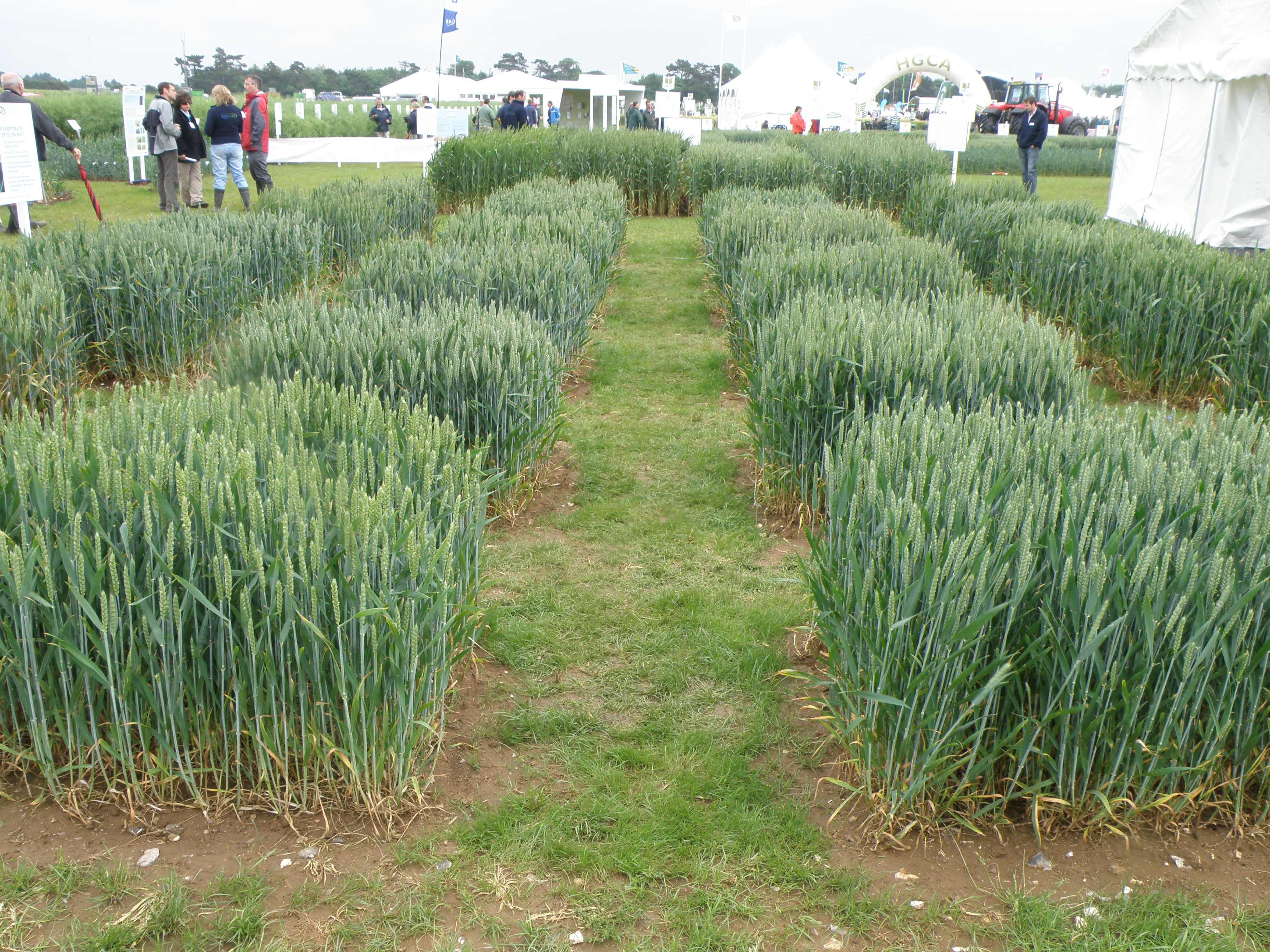 Cereal trial plot, Cereals 2010, near to Chrishall Grange, England, Great Britain. A National Institute of Agricultural Botany (NIAB)demonstration plot to determine the disease risk of Yellow Rust in the current list of commercially available winter wheat varieties. – The Cereals event is a trade showcase for arable farmers and associated industries. Displays of machinery, products, latest technologies and trial plots of cereals are all laid out on a temporary show ground that moves between different host farms around Cambridgeshire, Hertfordshire and next year Lincolnshire